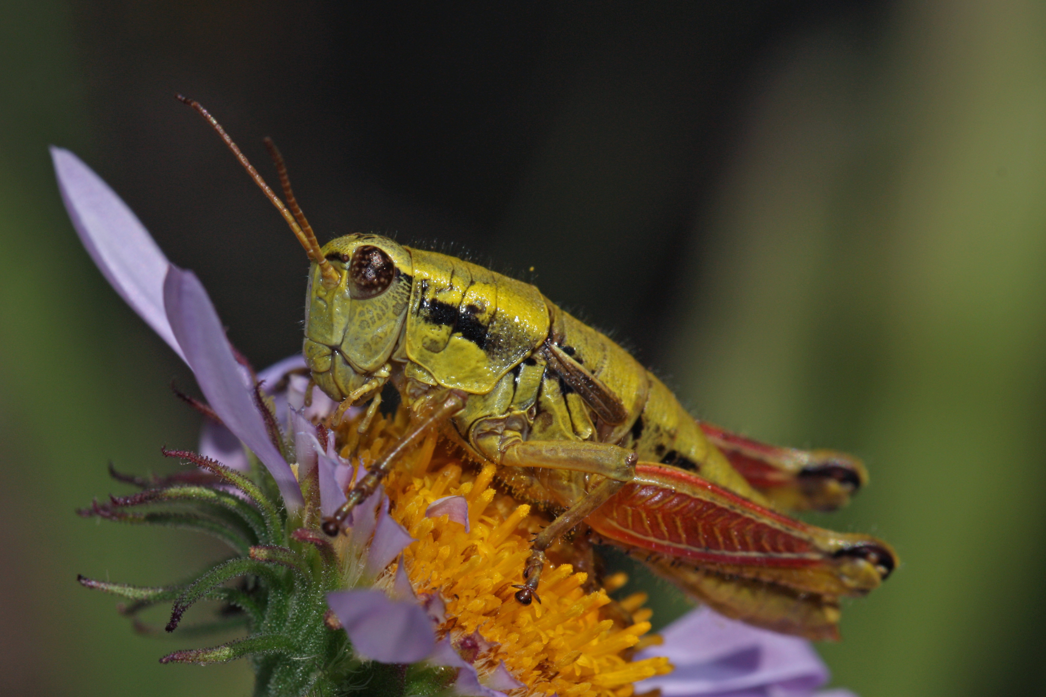 Cascade Timberline Grasshopper (Caudell, 1907); Identification by: self; Viewpoint location: Juniper Ridge Trail 261 Dark Divide Viewpoint elevation: 1622 meter (5321 ft) Location source: Garmin GPSmap 60CSx Location Datum: WGS84